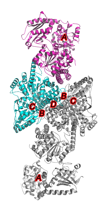 The overall structure of type III CODH/ACS with metal clusters labeled. PDB id 1oao.